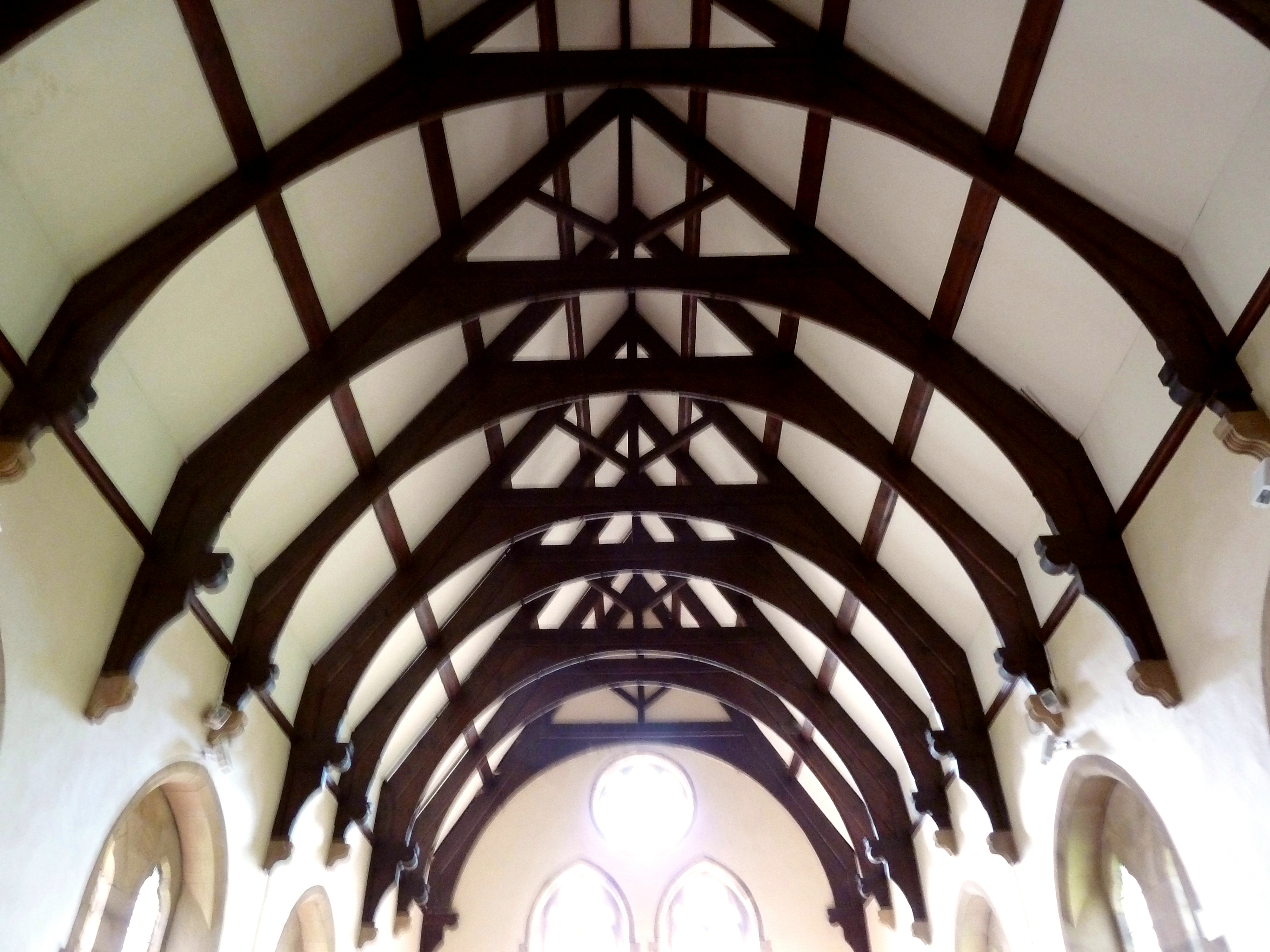 Interior of the Church of St Thomas, Thurstonland, Huddersfield, West Yorkshire, England. Built 1870, designed by James Mallinson and William Swinden Barber.